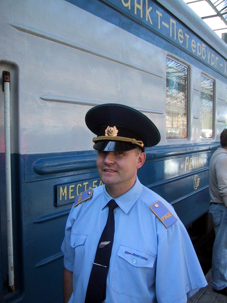 A Russian train assistant conductor in front of the express train "Repin" to St. Petersburg. Photo taken at Helsinki railway station in July 2002.